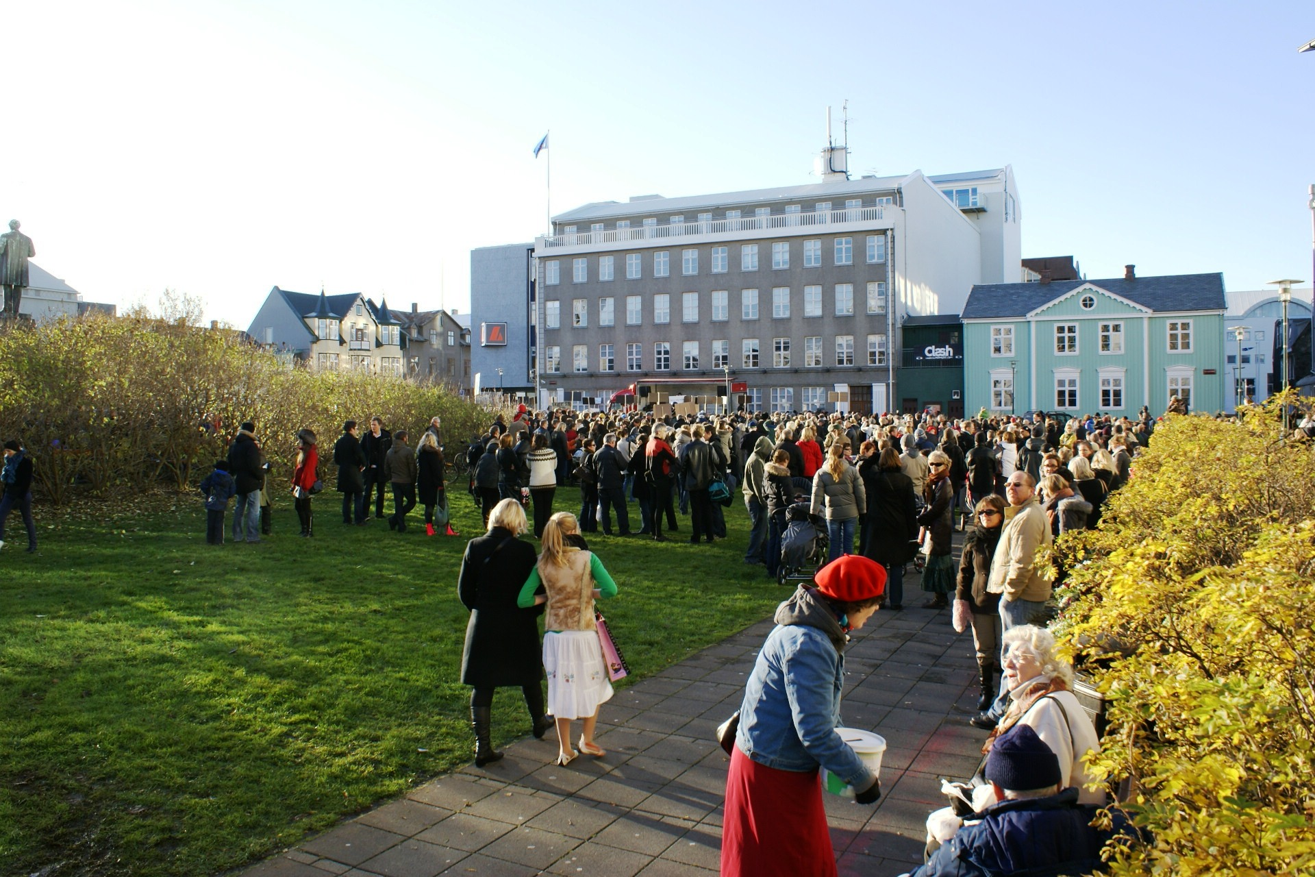 Week 2. Collection. The Kitchenware-Revolution in Iceland was organize by Hördur Torfason and "Raddir Fólksins". It started in the wake of the collapse of the banking system followed be the decimation of Icelandic economy in the beginning of October 2008. It resulted in the resignation of Geir H. Haarde and his cabinet on January 26. 2009. The protest meetings were held every Saturday at the Austurvöllur square in front of Alþingishús - the Icelandic parliament house. The first meeting (week 1) was dated Saturday 11. October 2008. The 16th meeting dated January 24. 2009